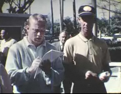 Torch of Friendship Local call number: V-40; CA133 Title: [The Torch of Friendship] Date of film: Early 1960s Physical descrip: Color; sound; original length: 14:50 General note: Excerpt of original film promoting the Hampton House Hotel in Miami, a business oriented to an African-American clientele. The film describes how notable black men and women of the 1960s gathered there, such as Ralph Metcalf (gold medalist, 1932 & 1936 Olympics), Althea Gibson (Wimbledon Champ), Martin Luther King Jr., singer Jackie Wilson, and baseball Hall of Famer Jackie Robinson. The film follows a formula similar to other promotional films, except almost everyone in it is black. The complete footage shows entertainment, the owners, a fashion show, dog and horse racing, the Miami Seaquarium, the Torch of Friendship, Yogi Berra, Mickey Mantle, the Baltimore Orioles, and the FAMU Track team. Produced by Don Parisher. To see full-length versions of this and other videos from the State Archives of Florida, visit Repository: State Library and Archives of Florida, 500 S. Bronough St., Tallahassee, FL 32399-0250 USA. Contact: 850.245.6700. Persistent URL: This is a screen capture from the movie posted at the Florida State Archives website. Per the Flickr Commons, said to be in the Public Domain, no known copyright restrictions.